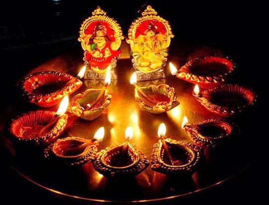 Diwali celebrations in Sri Lanka, festival of lights.